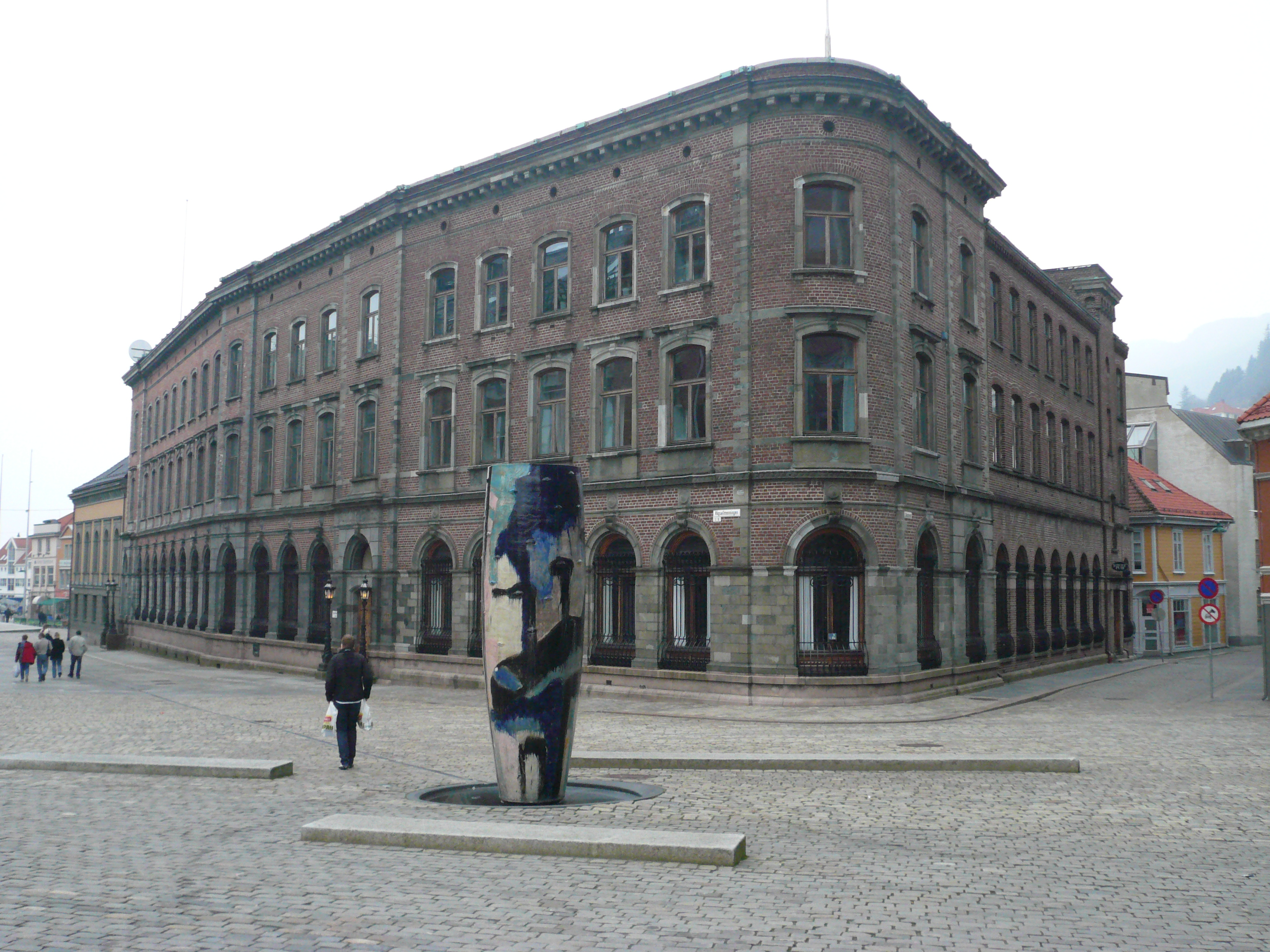 Bergens Kreditbank, Vågsallmenningen 14-22, Bergen, Norway